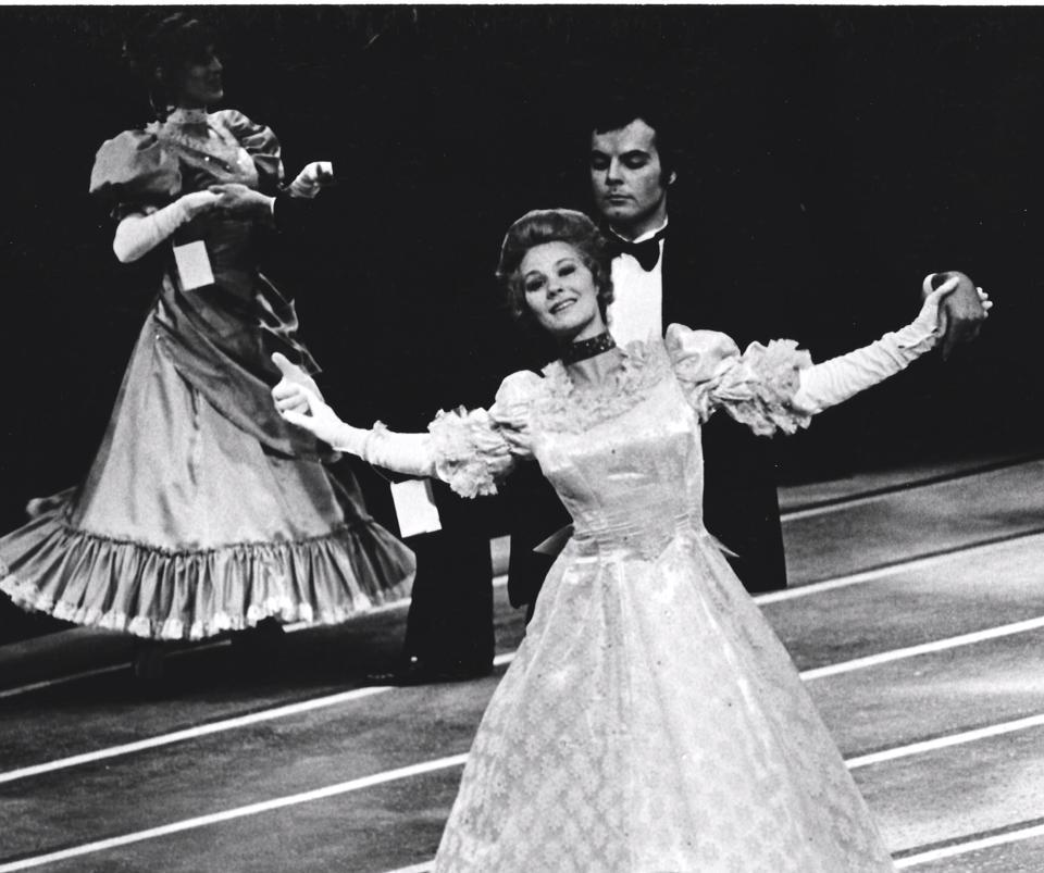 Dennis Grimaldi